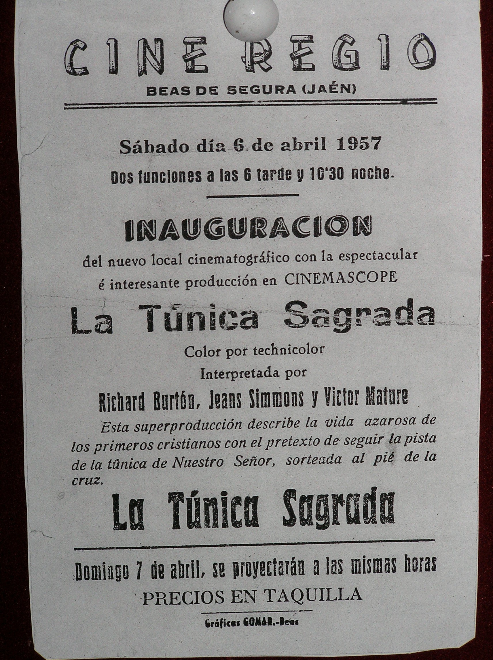 Octavilla anunciadora de la inauguración del Cine Regio el 6 de abril de 1957